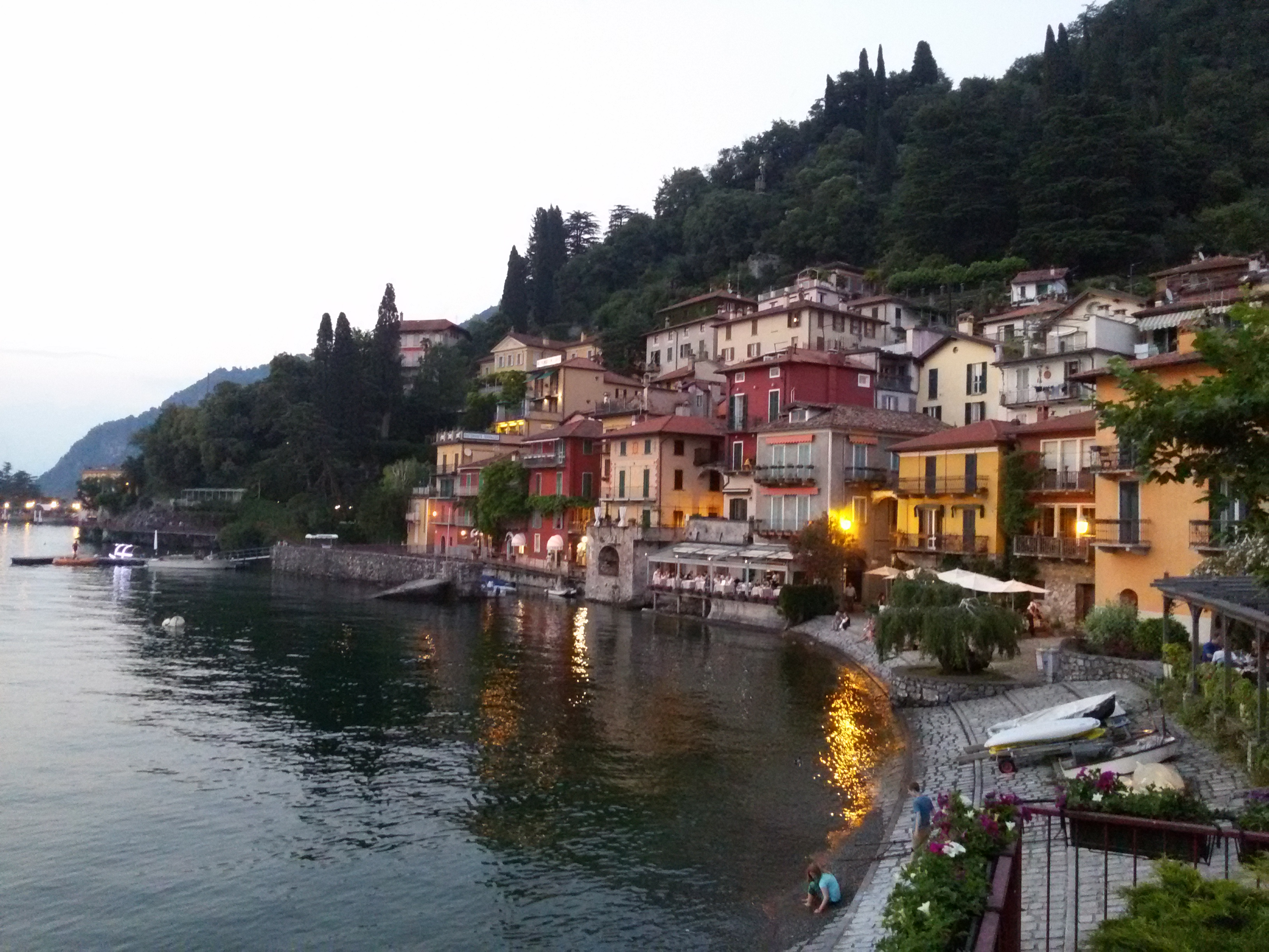 Varenna, at Como Lake